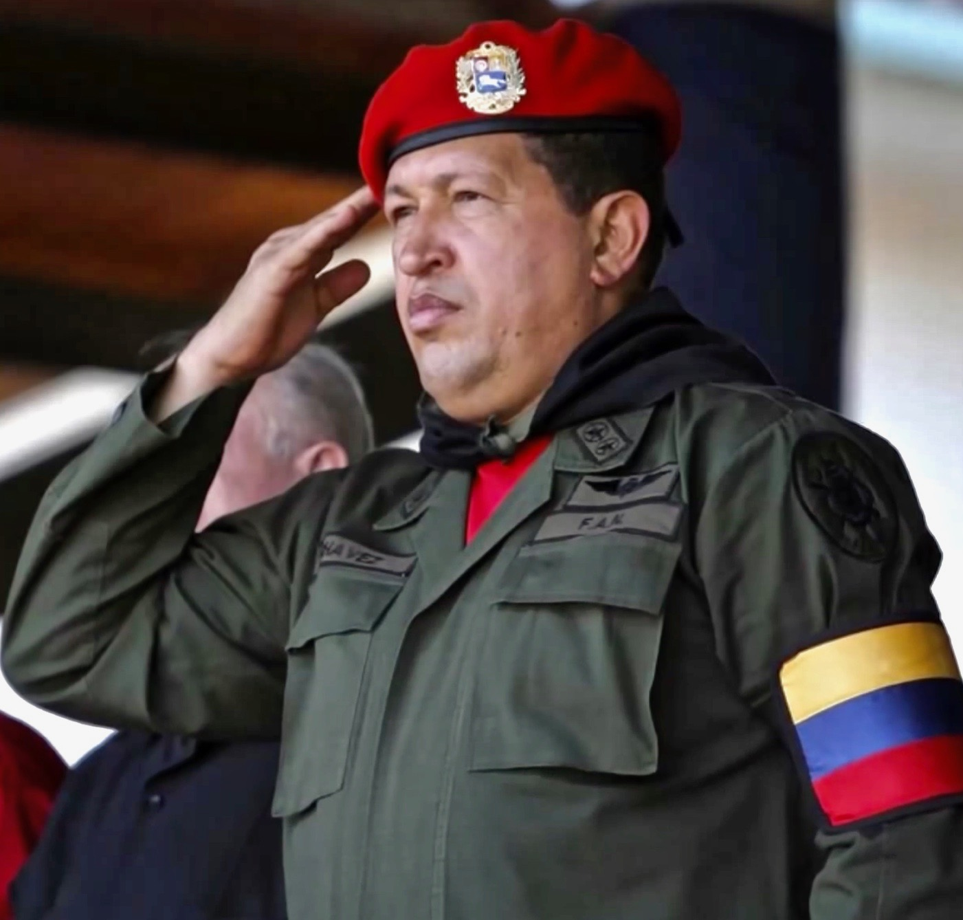 Hugo Chávez saluting